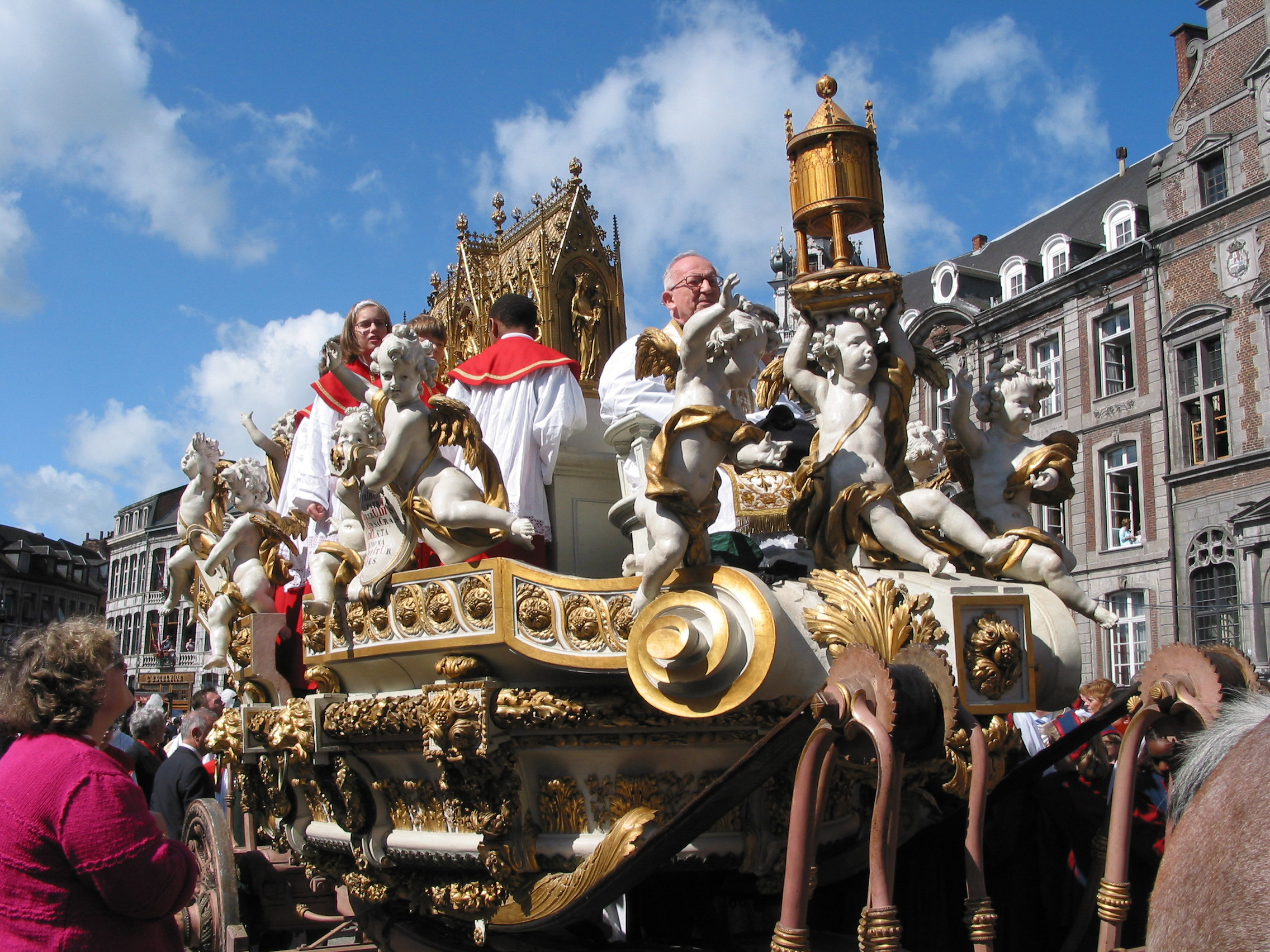 Mons: the procession of the Golden Car.